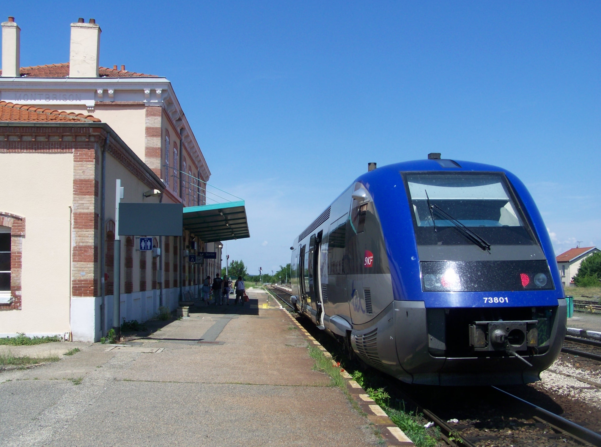 French regional train (SNCF Class X 73500) stopped in Montbrison railway station in the department of Loire near Saint-Étienne.